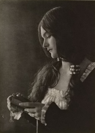 Author and actress Concordia Merrel (1886-1962) as Rosamond